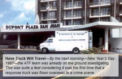 ATF Truck in Front of Dupont Plaza Hotel